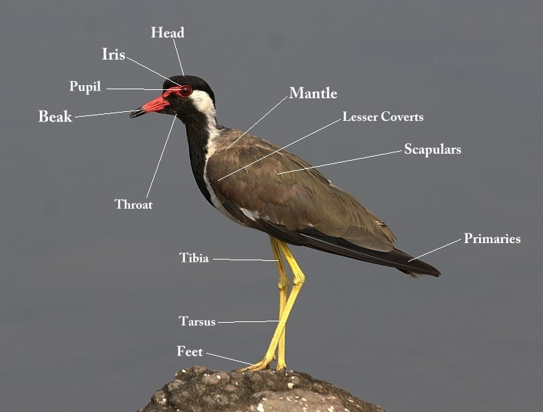 Red-wattled Lapwing Vanellus indicus external morphology. External anatomy or morphology (topography) of a typical bird.